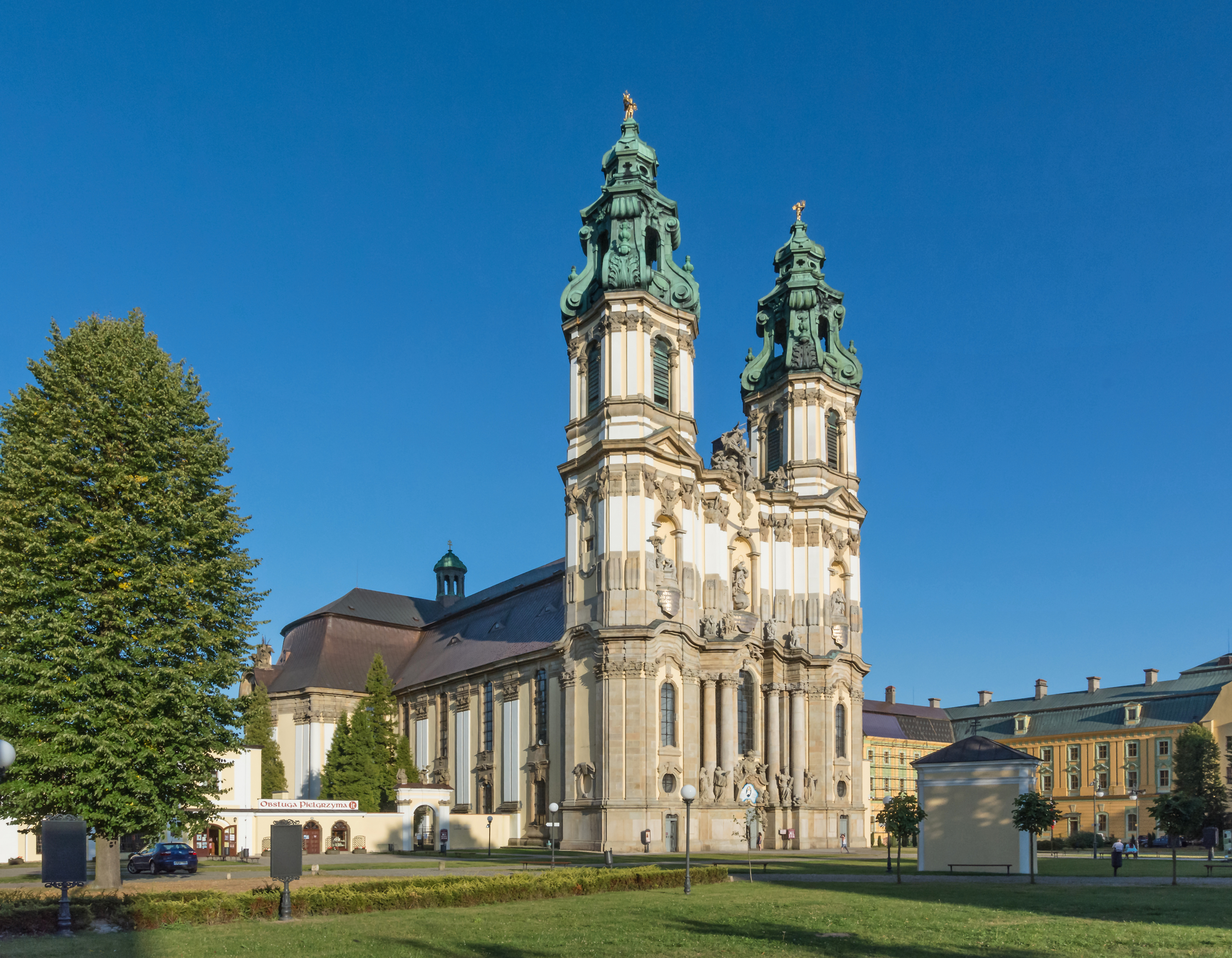 Basilica of the Assumption in Krzeszów